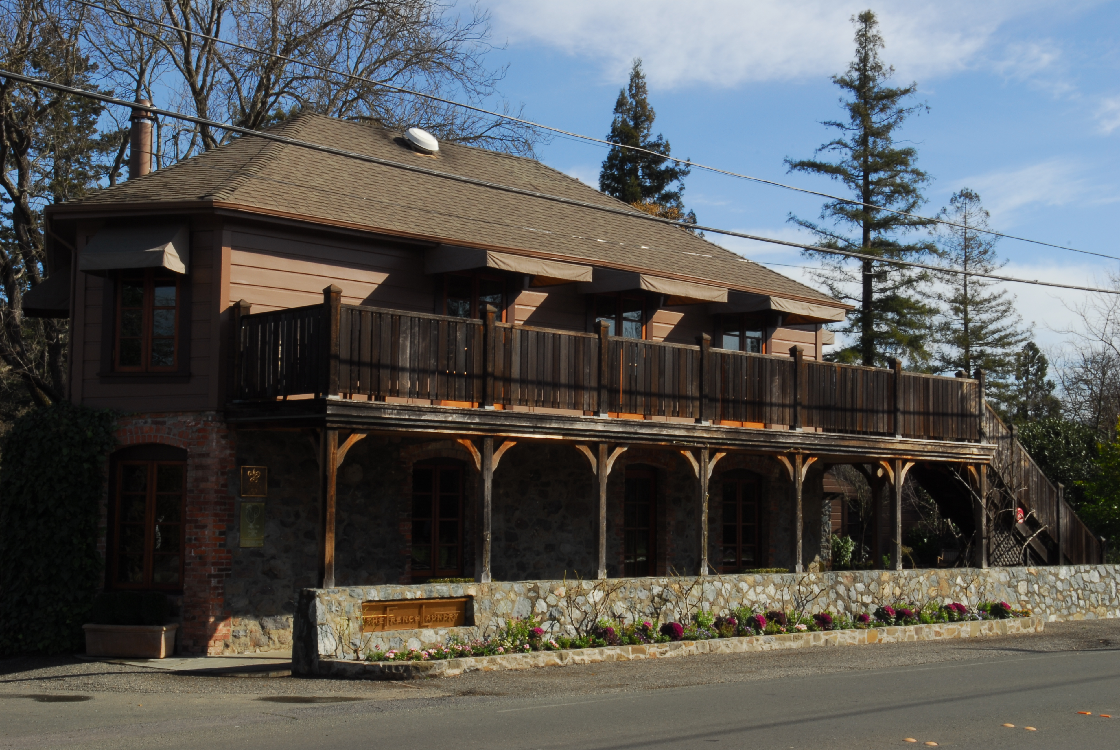 The French Laundry.